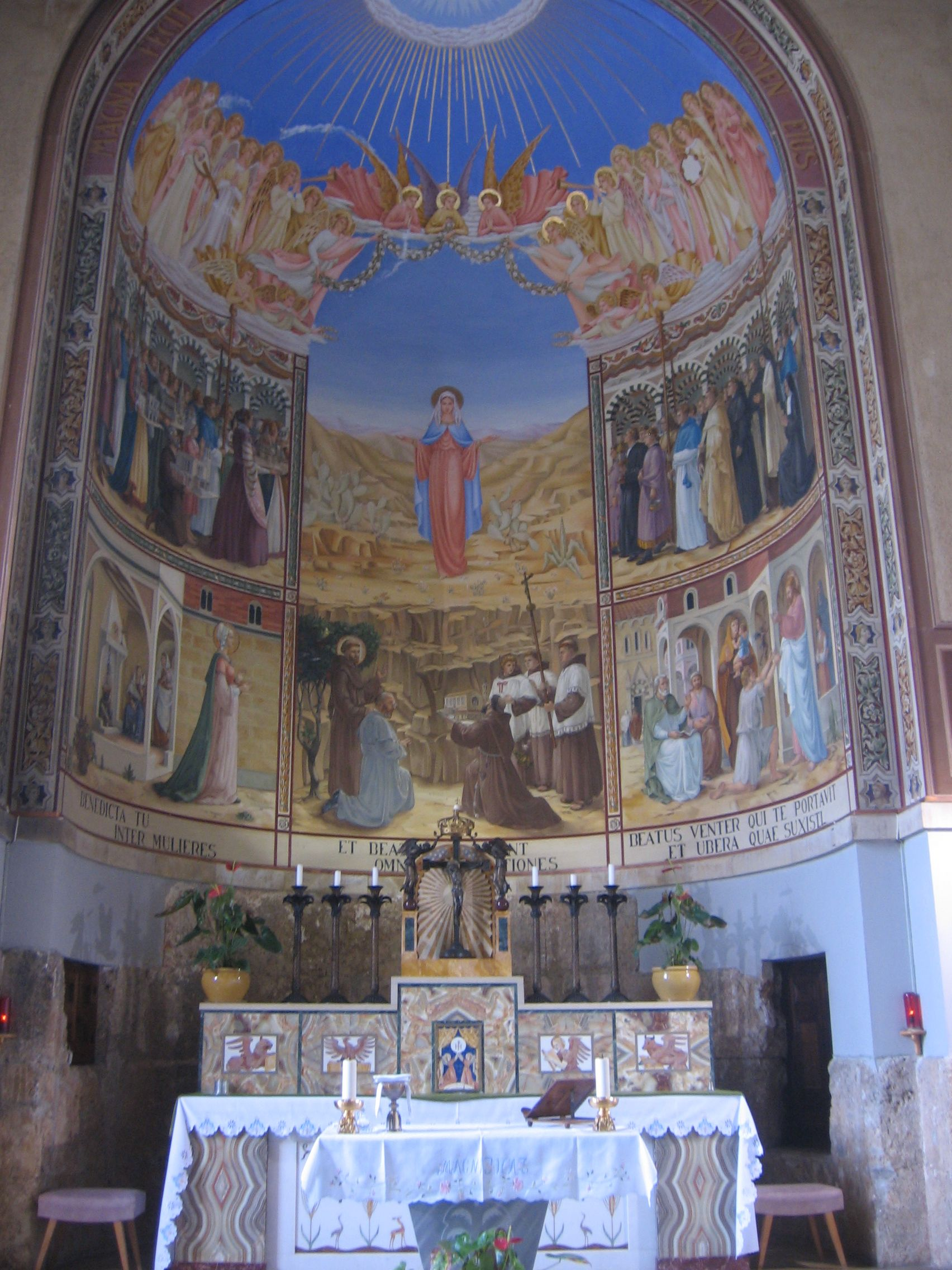 Jerusalem's church of the visitation altar.